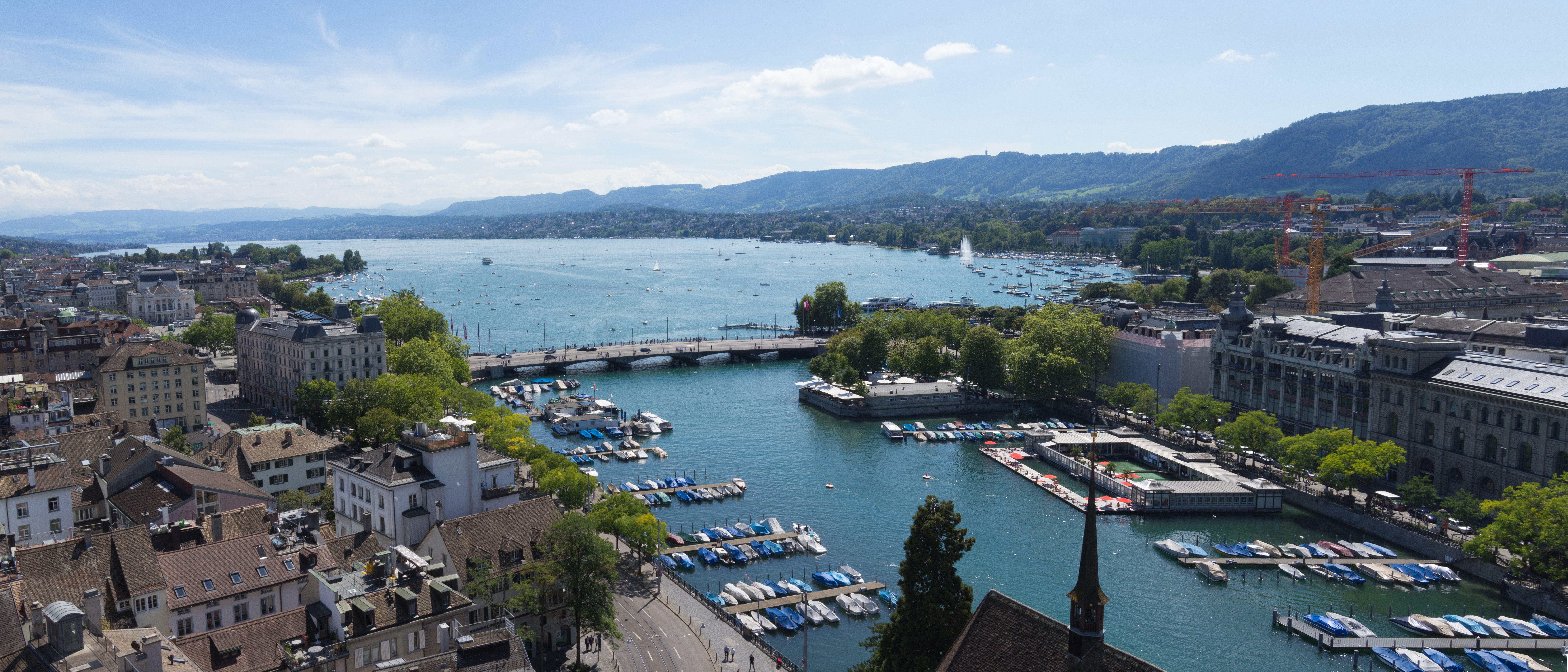 This picture is taken from the Grossmünster in Zürich City. It displays a part of the city and of Lake Zürich.